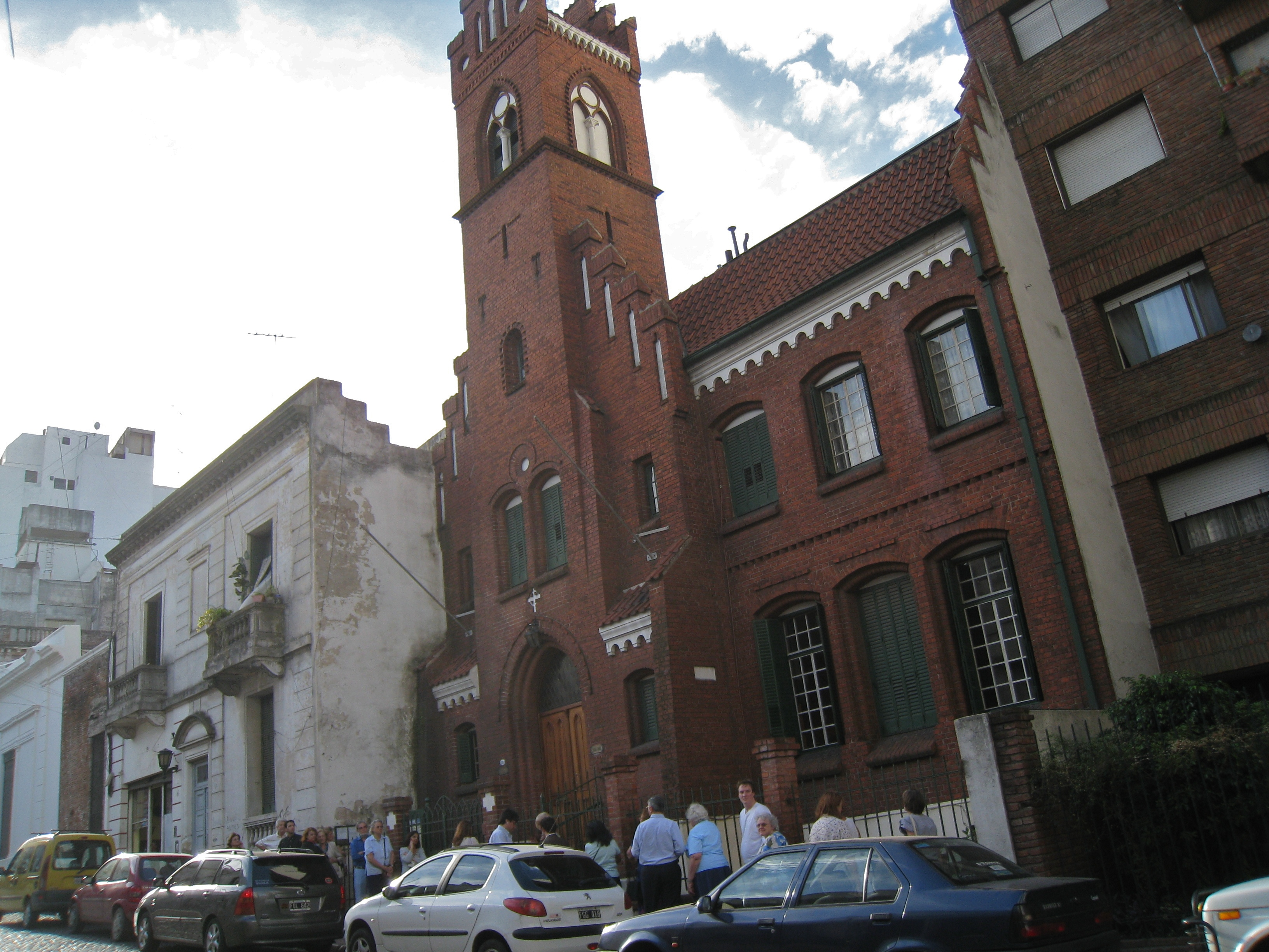 The Danish Church of Buenos Aires (completed in 1931), on Carlos Calvo Street, San Telmo district.